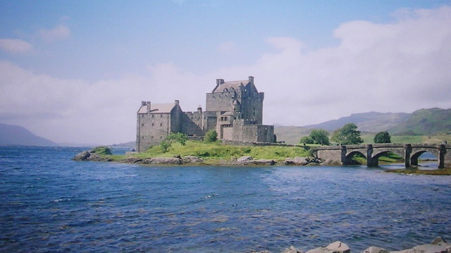 Eilean Donan Castle in Scotland.